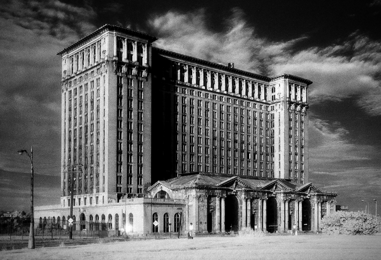 exterior of Michigan Central Station — shot with architectural HIE film.